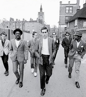 Derivative work of File:You're Wondering Now-The Specials from conception to reunion.jpg